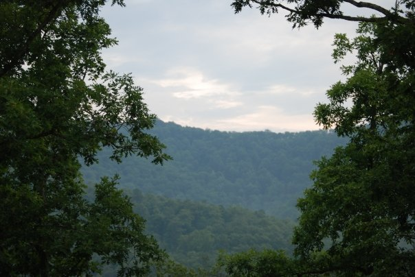 An overlook near Camp Ottari at the Blue Ridge Scout Reservation.